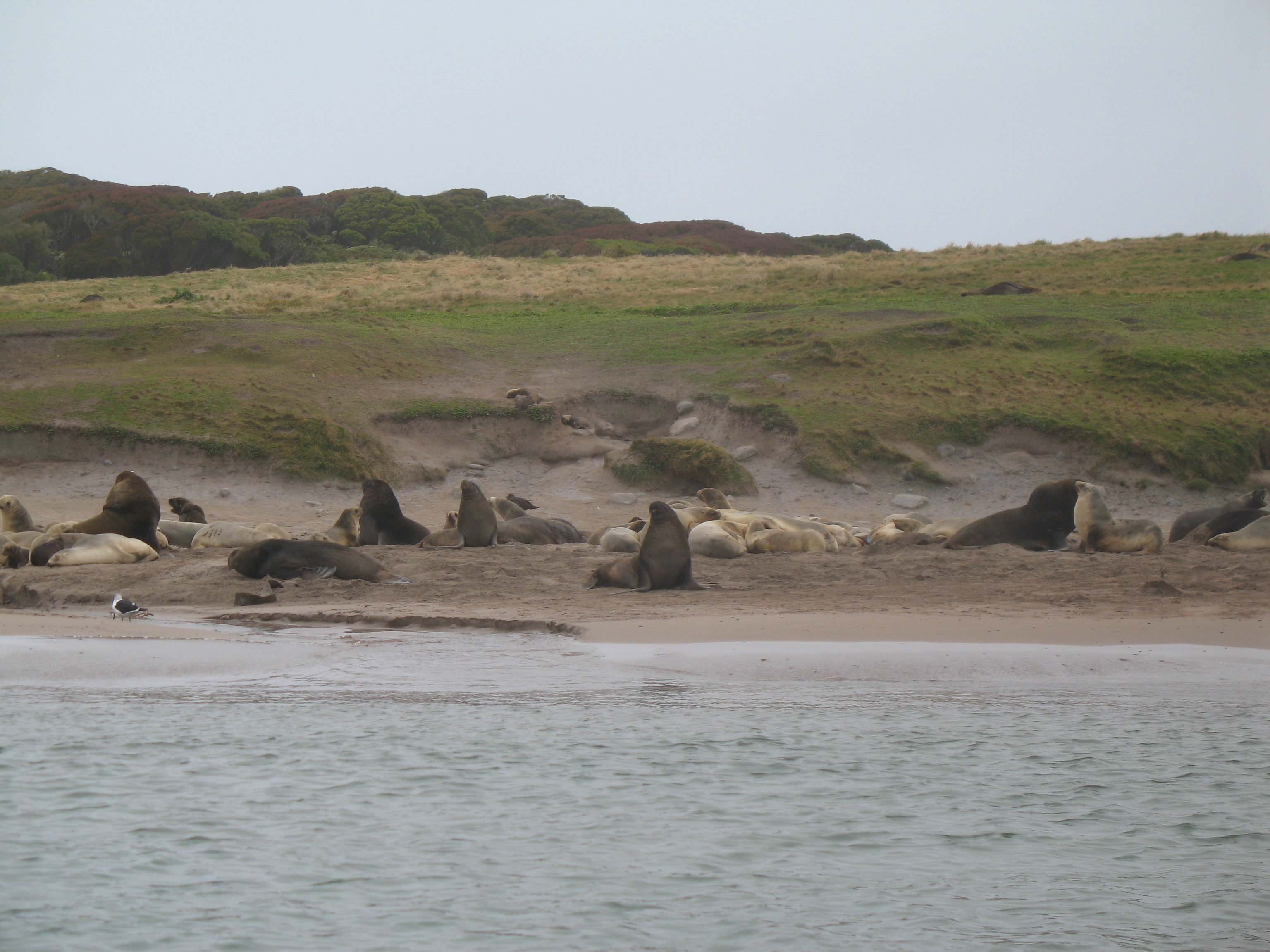 New Zealand (or Hooker's) Sea Lions (Phocarctos hookeri) on Enderby Island.